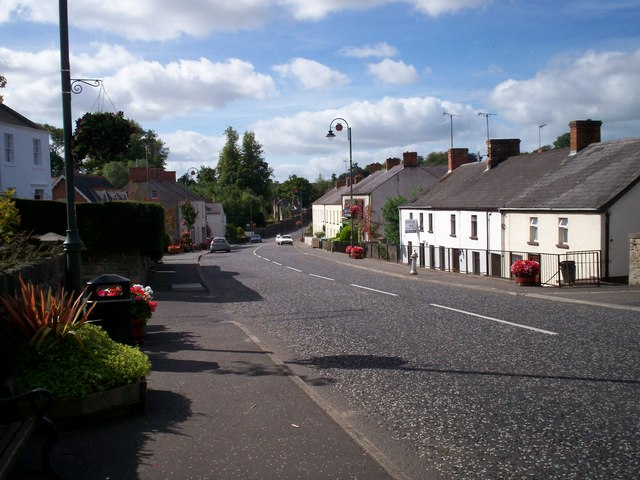 Main Street, Loughgall.